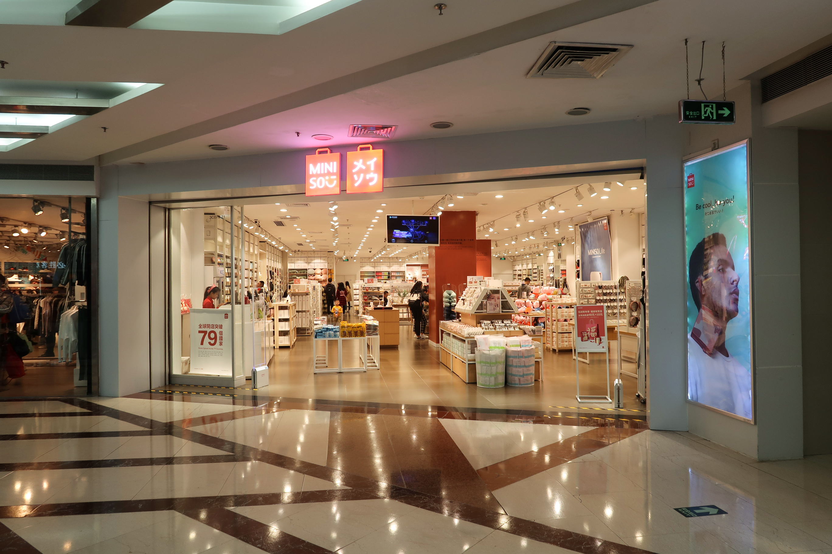 Miniso in Grandview Mall